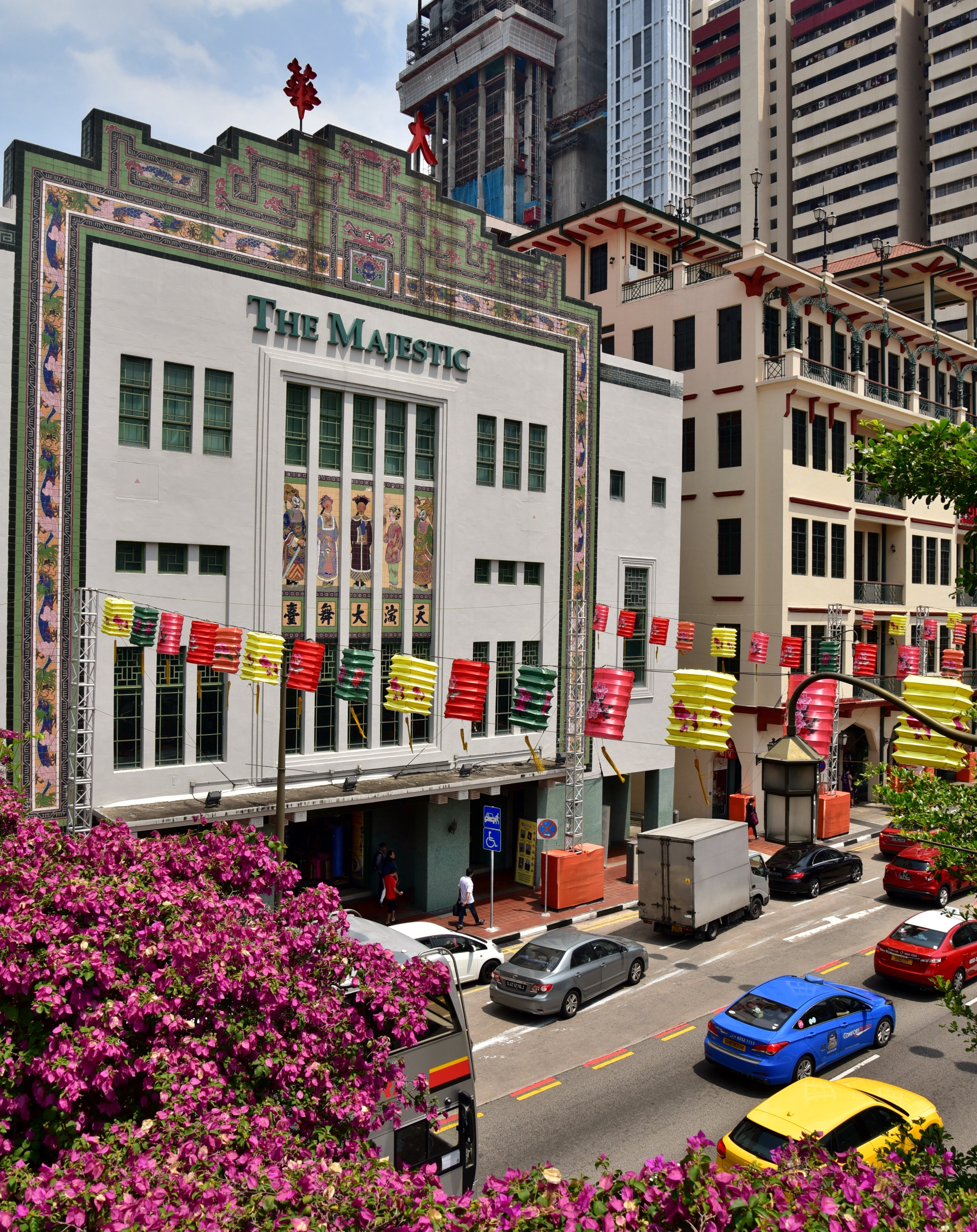 View of The Majestic, Singapore